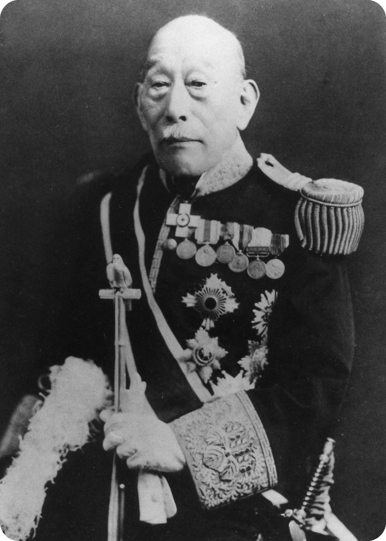 Portrait of Count Kiyoura Keigo (清浦奎吾, 1850 – 1942)